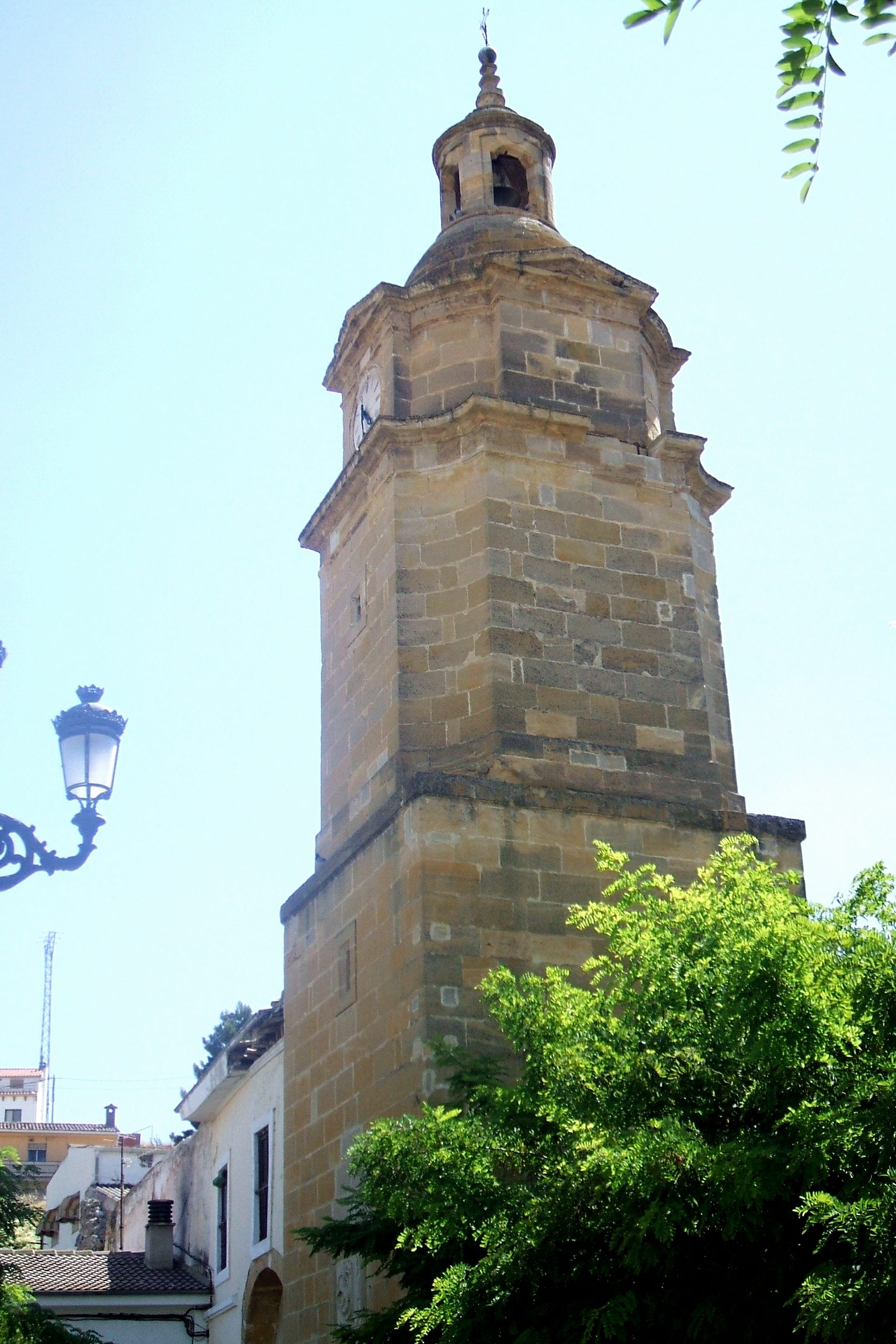 Torre del Reloj, Huete (Cuenca, Castilla-La Mancha, España)